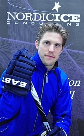 Jonas Andersson